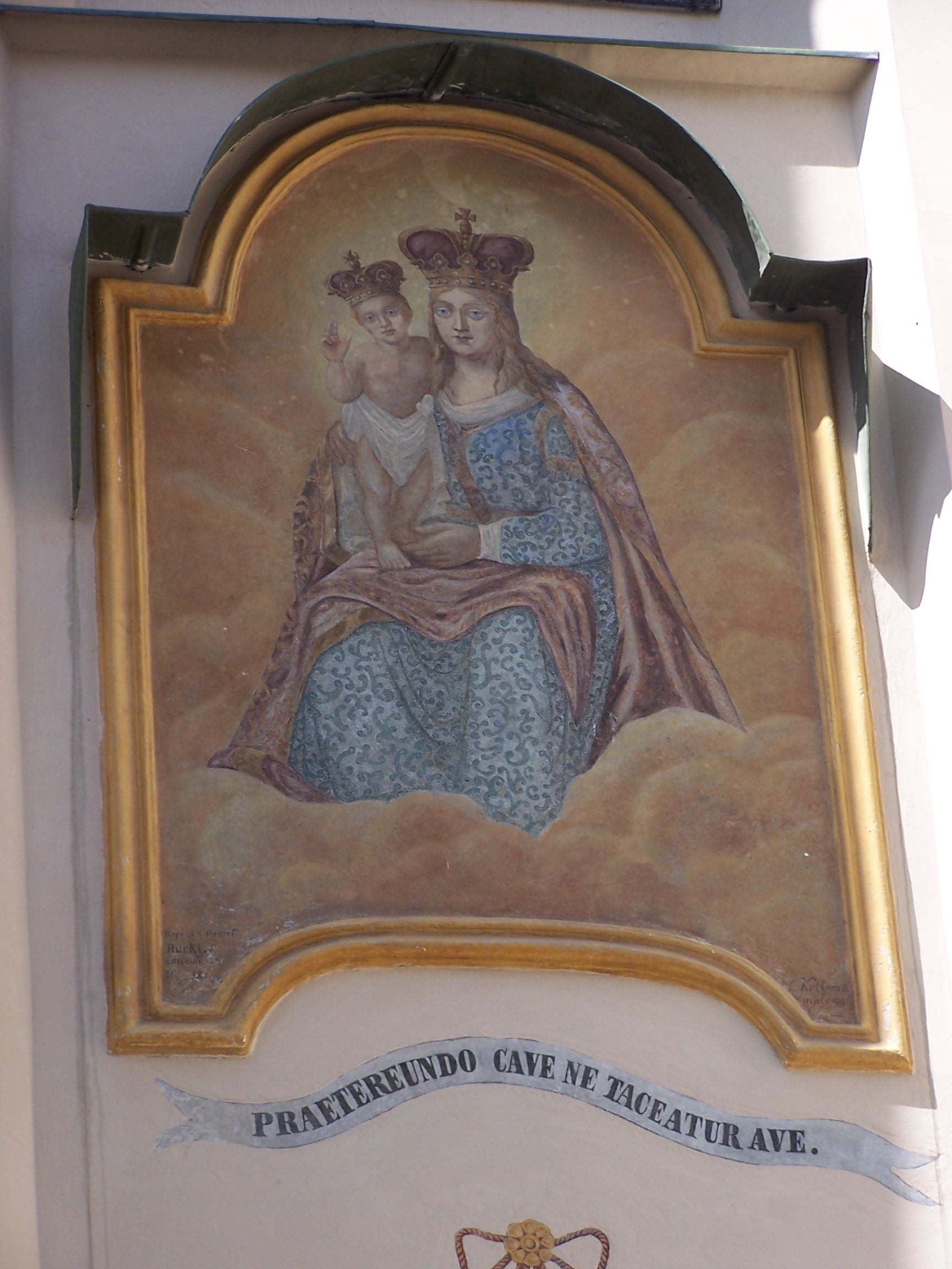 Lwów. Madonna. Source: self made photo